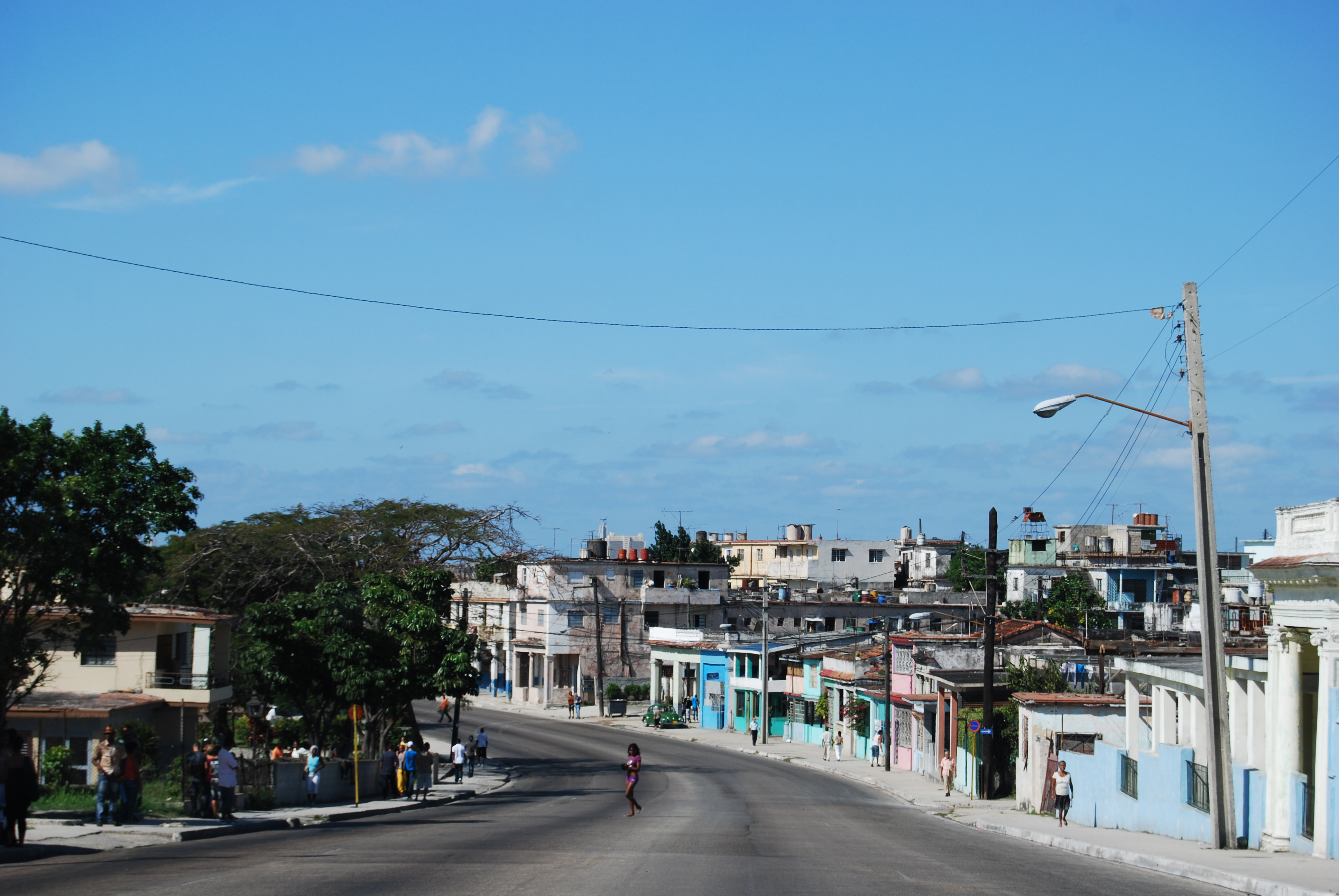 San Miguel del Padrón, Cuba